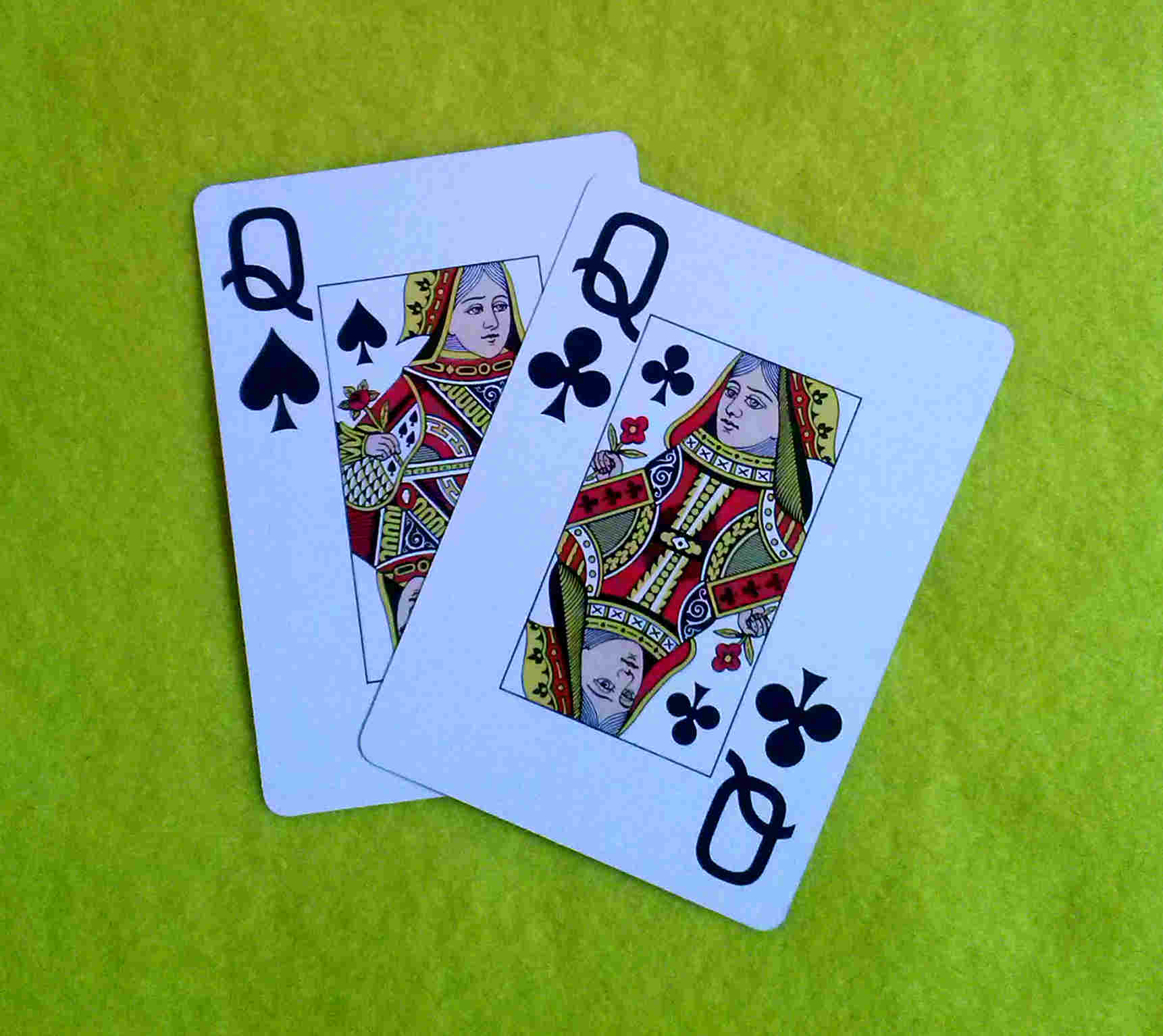 Two blacks queens of the standadr english deck. Queen of clubs, Queen of spades.